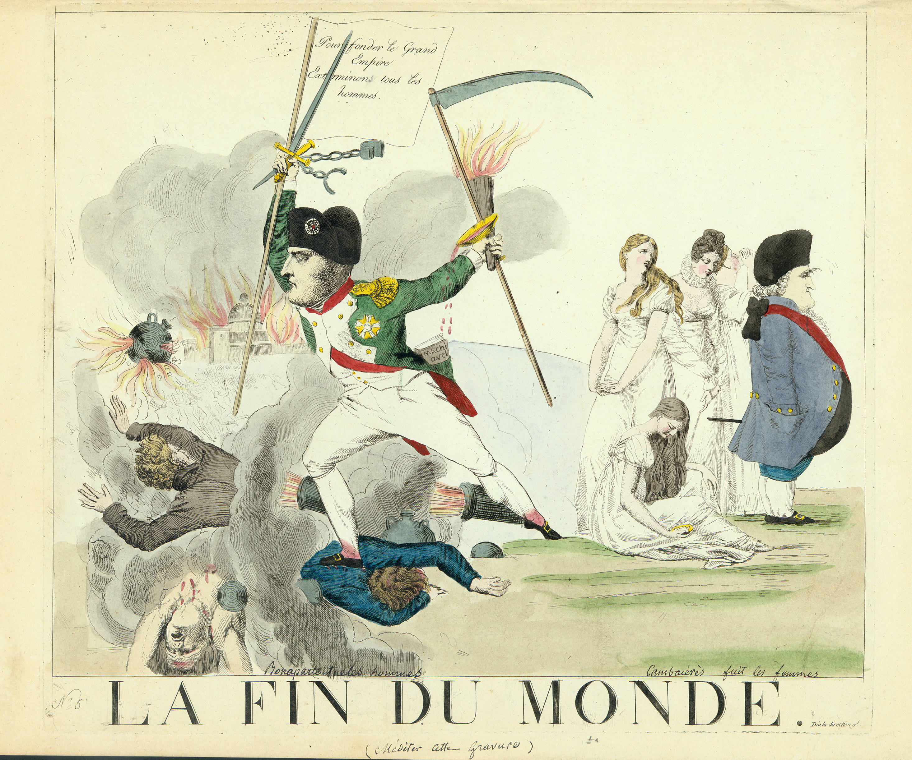 The illustrator proposes two versions of the extinction of the human race: death and the refusal to reproduce. At the left, you see Napoleon and some of his victims, his feet stained with their blood. He carries various instruments of death and destruction. His banner makes his intentions clear. On the right, you see Cambaceres (second consul under Napoleon and widely rumored to have been homosexual), turning his back on three young ladies dressed in white. Reference source: Clerc #27 Also found in the De Vinck Collection (#9321) in the Bibliothèque Nationale (Paris) and in the Collection de l'histoire de France, Qb1, February 22, 1814. Subjects (LCSH): Political cartoons; History--Caricatures & cartoons; Napoleon I, Emperor of the French, 1769-1821; Napoleonic Wars, 1800-1815; Cambacérès, Jean Jacques Régis de, 1753-1824